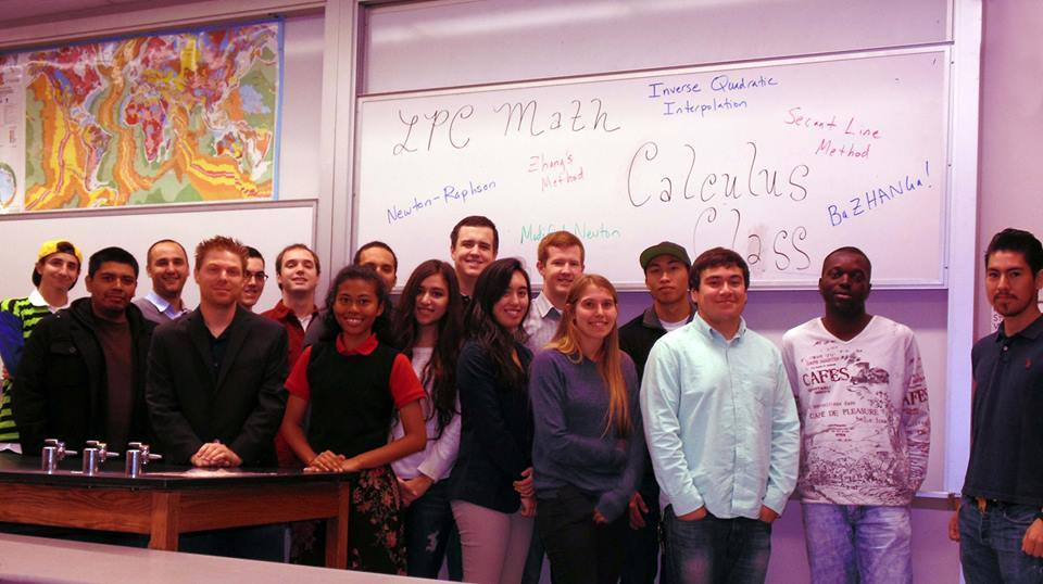 Professor Blumenfeld with his fall semester math 1 students